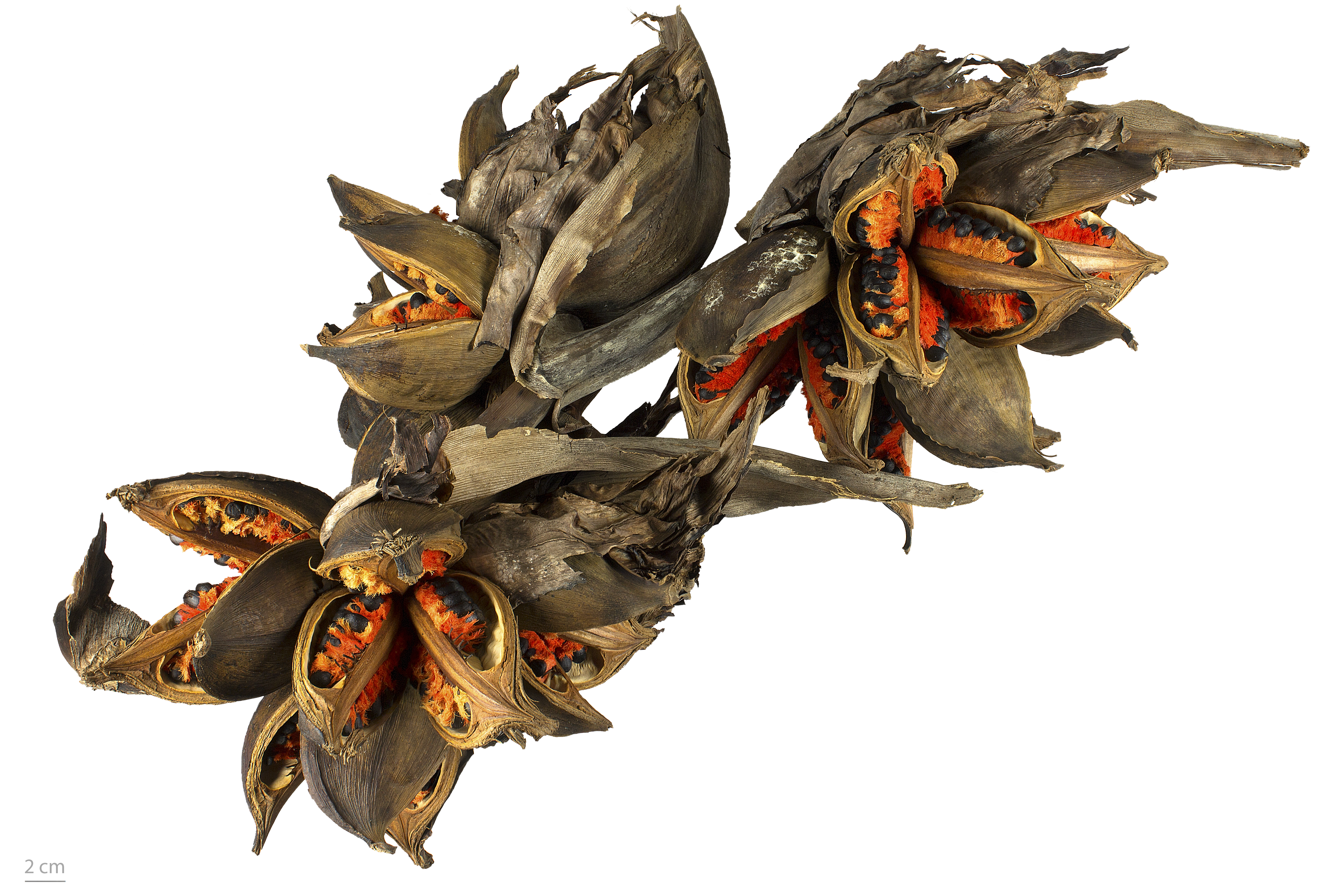 Phenakospermum guyannense, , seeds